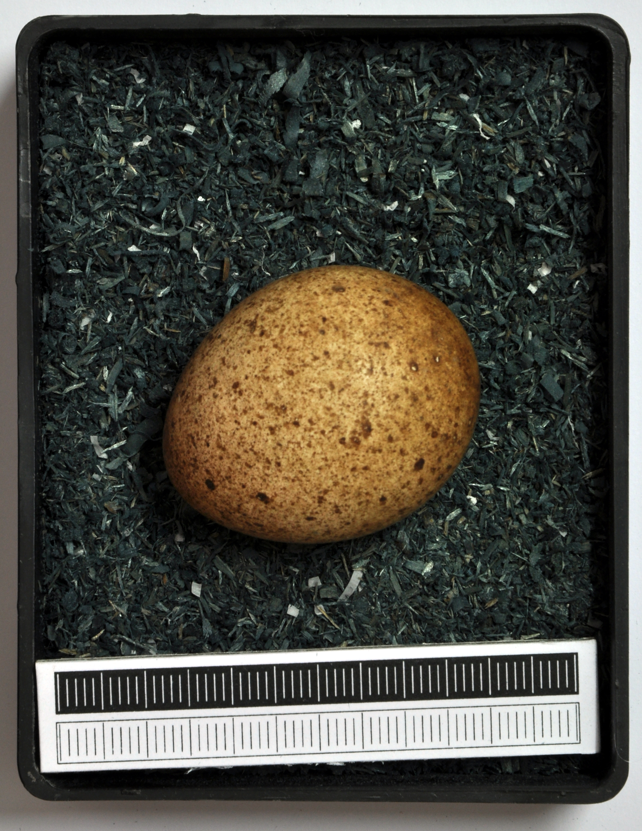 Eurasian hobby Falco subbuteo , egg, Coll. Museum Wiesbaden, leg. W. Abelmann